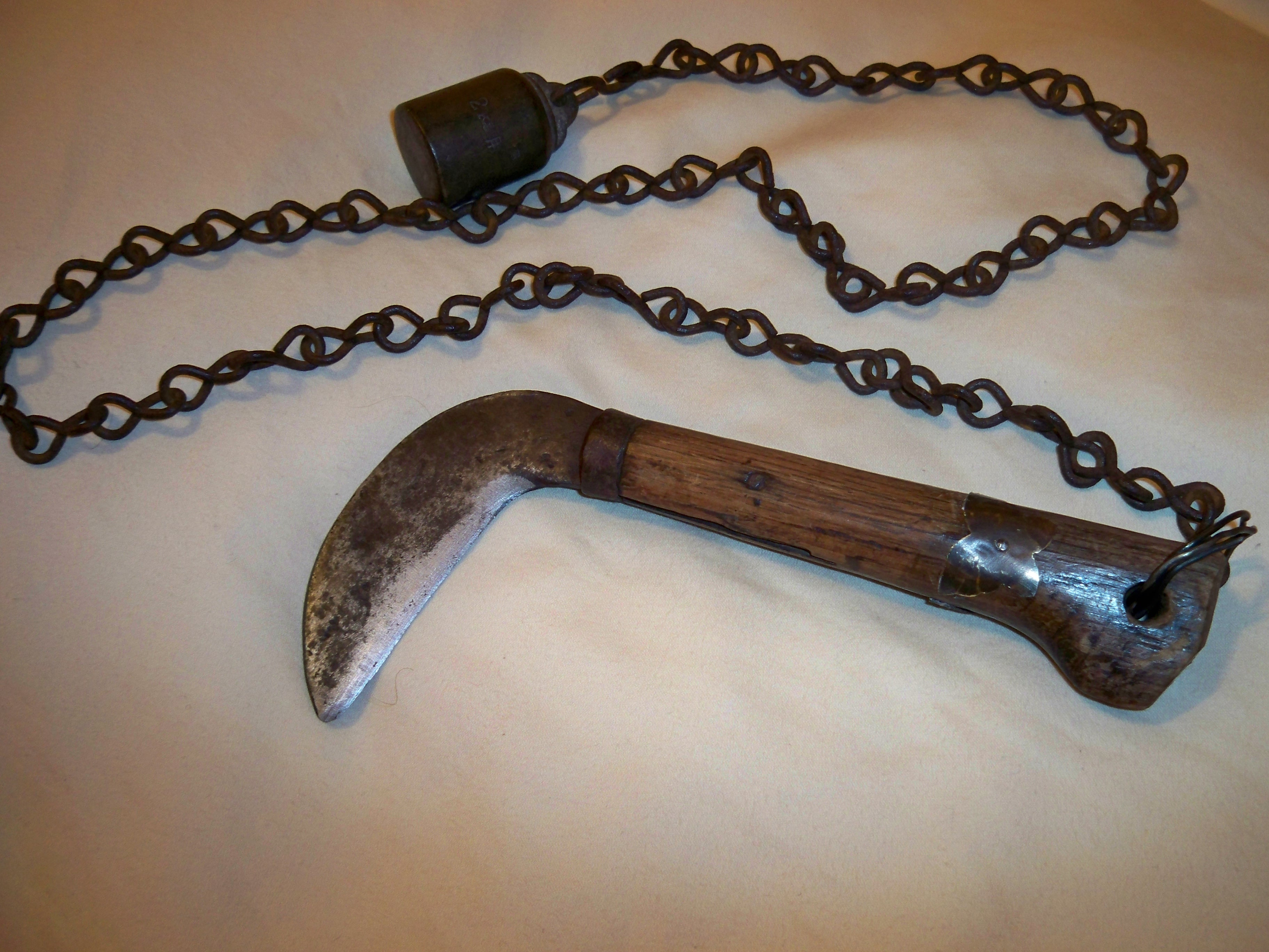 Japanese kusarigama.